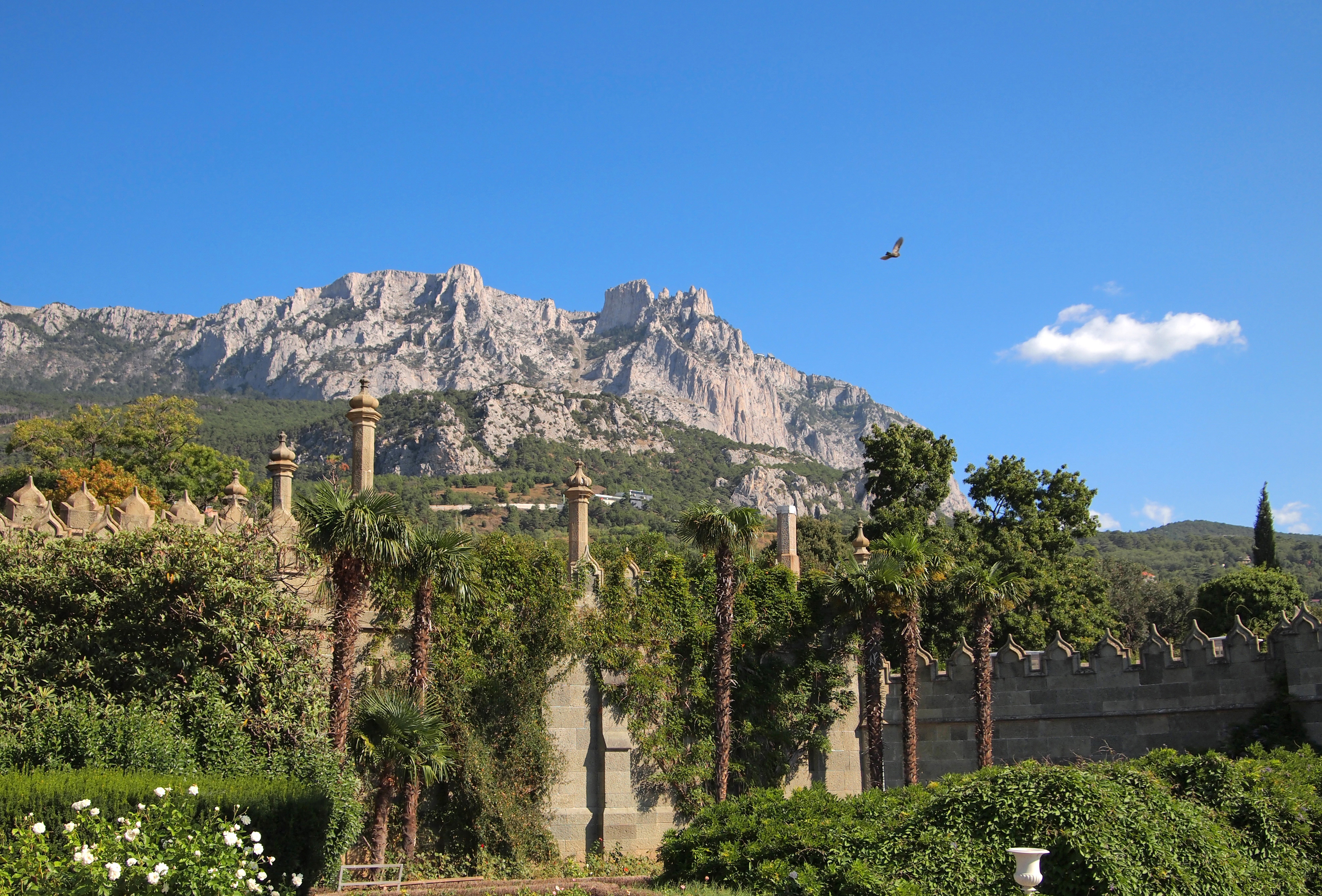 View from the Alupka castle yard to the mountain Ai-Petri. This photograph was taken with a Olympus E-PL1.